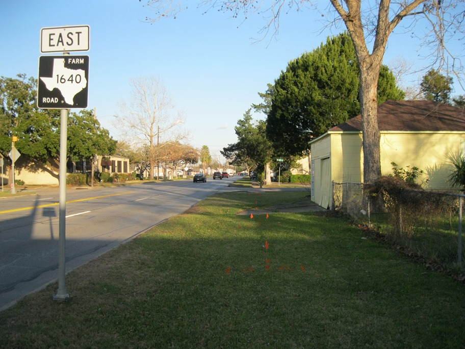 Photo shows FM 1640 (Avenue I) in Rosenberg, Texas. The view is to the east between 4th and 5th Streets.